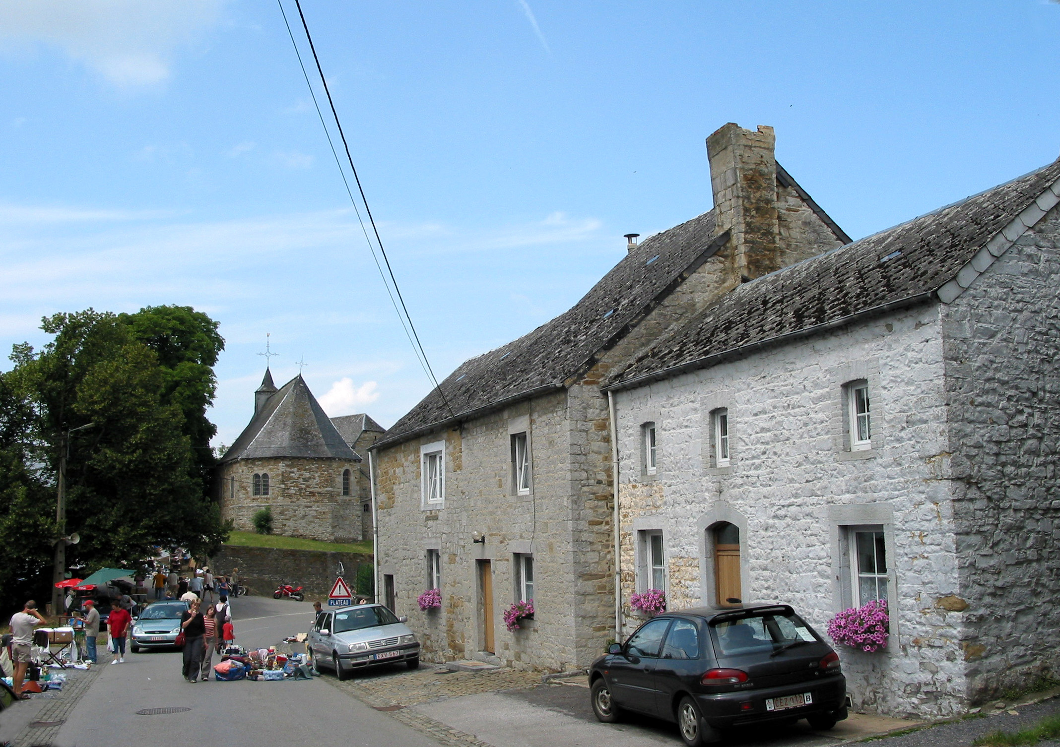 Hamois (Belgique), de buurt van de Sint-Agatha kapel in Hubinne. Walon: Hamwè (Bèljike), li vèjinadje dol tchapèle Sinte-Agate à Hubine.